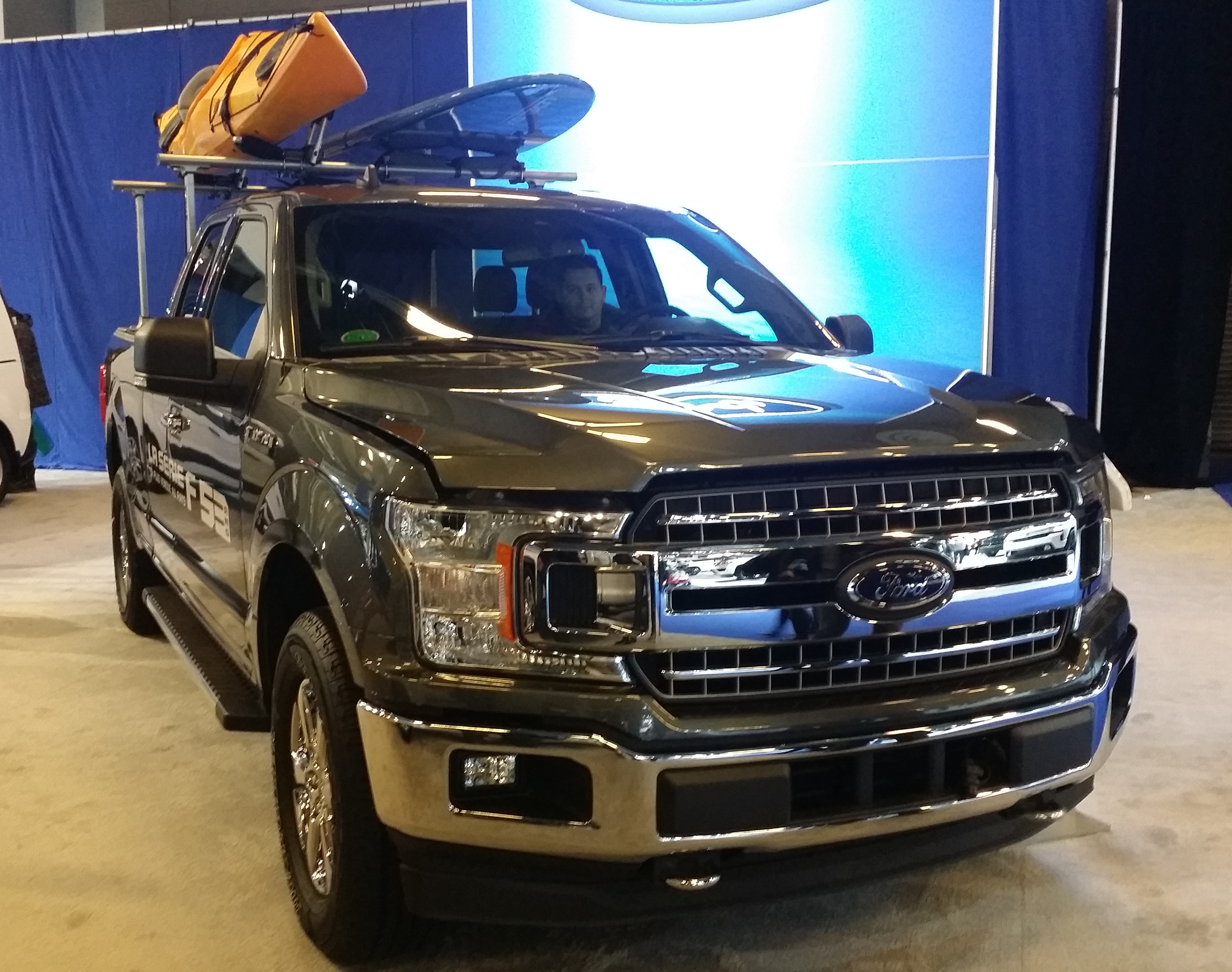 2019 Ford F-150 photographed in Montréal , Québec , Canada at the 2019 Montréal International Auto Show.